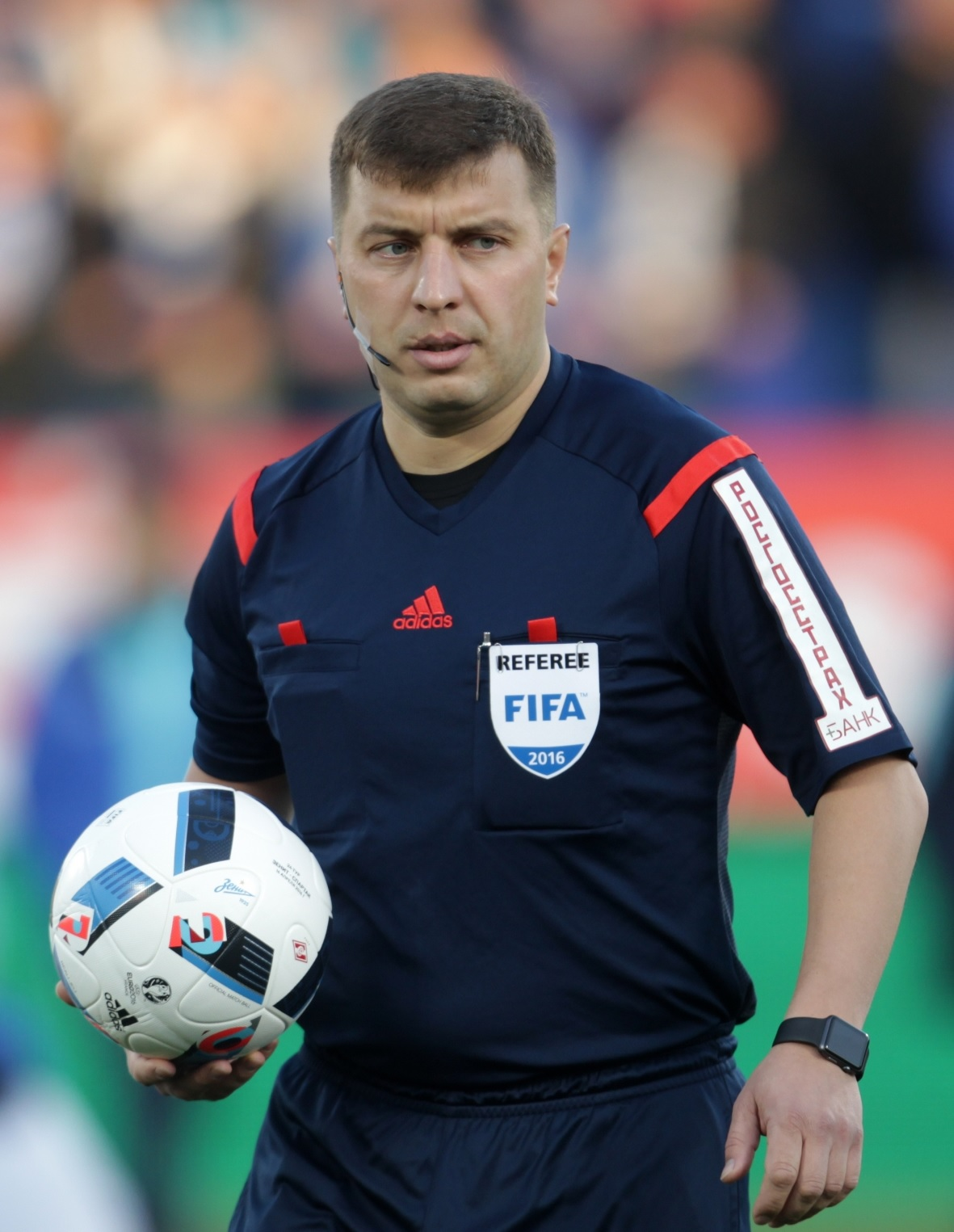 Mikhail Vilkov refereeing a game between FC Zenit Saint Petersburg and FC Spartak Moscow on 16 April 2016.